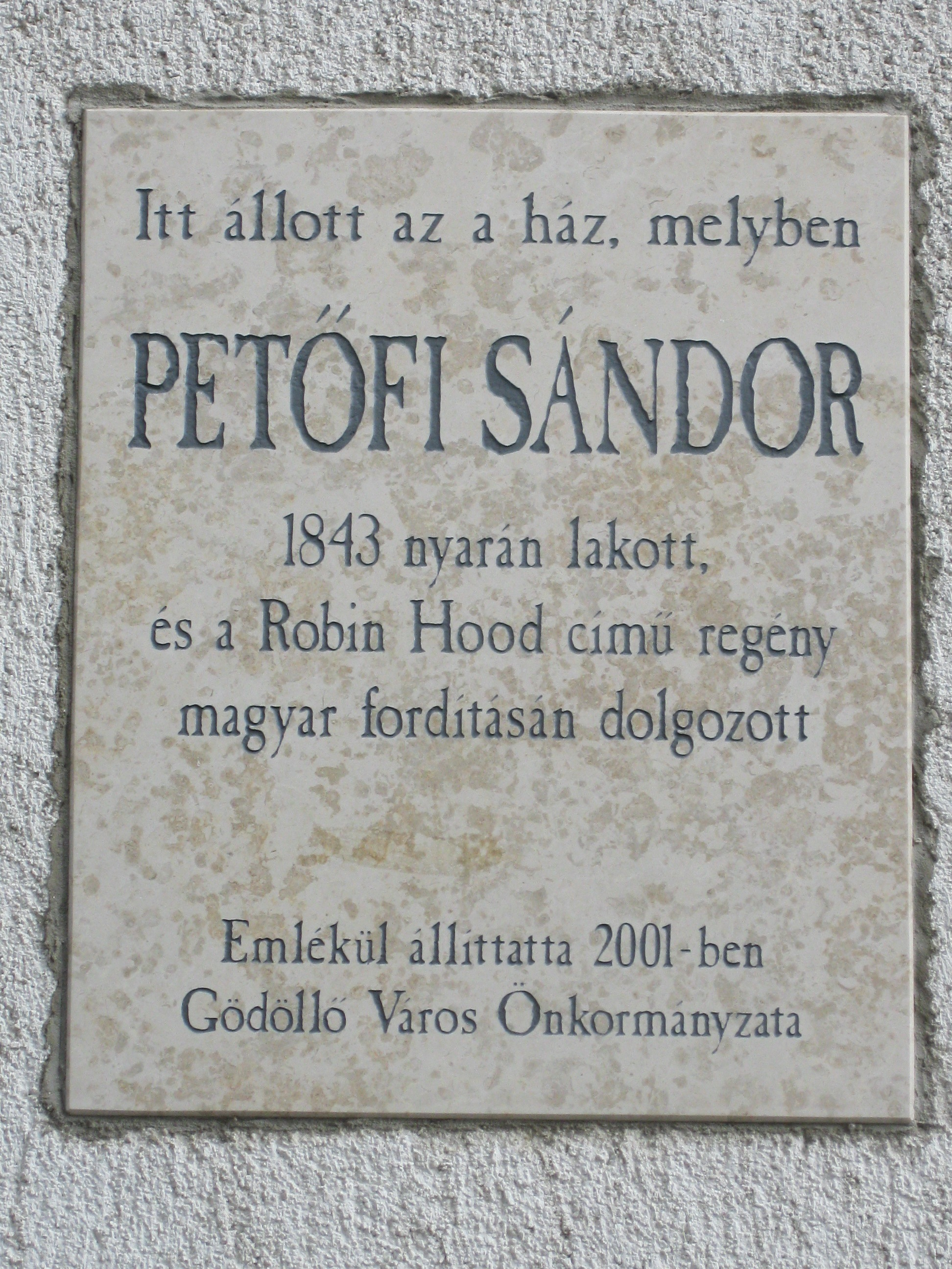 Commemorative plaque of Sándor Petőfi in Gödöllő, Petőfi Sándor Square No 16